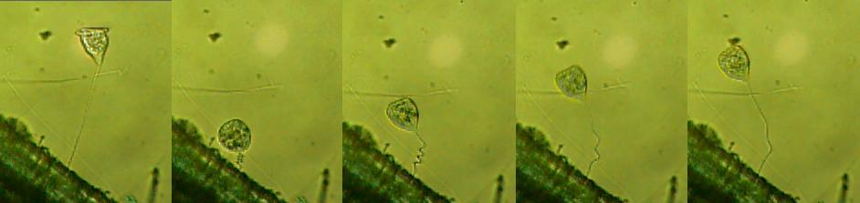 Vorticella is a genus of protozoa, with over 100 known species. They are stalked inverted bell-shaped ciliates, placed among the peritrichs. Each cell has a separate stalk anchored onto the substrate, which contains a contracile fibril called a myoneme.